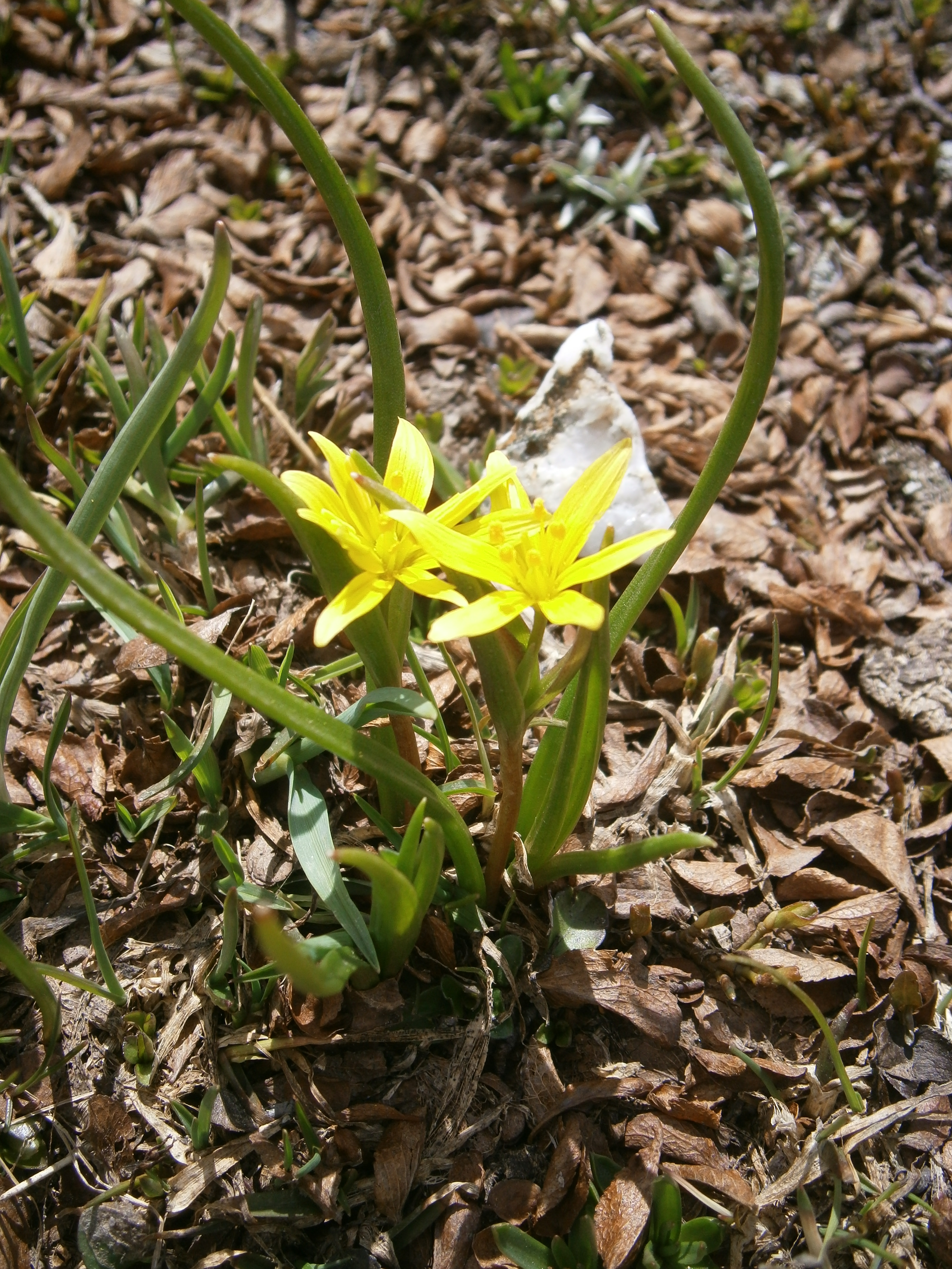 Gagea fistulosa